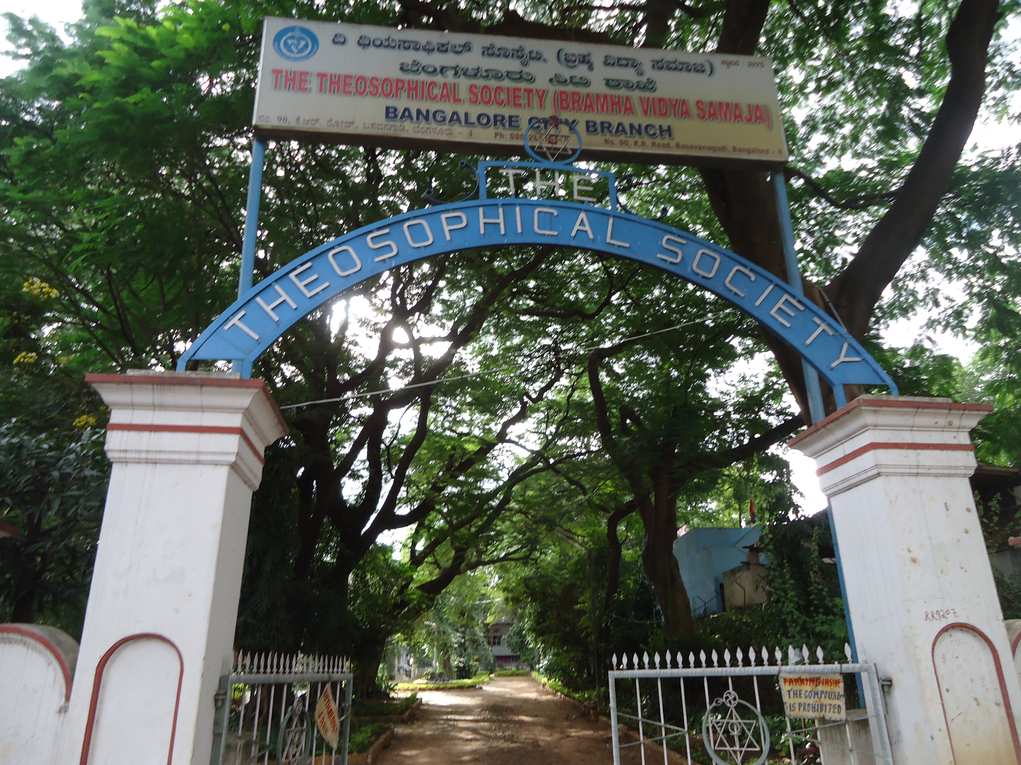 Theosophical society Bangalore gate